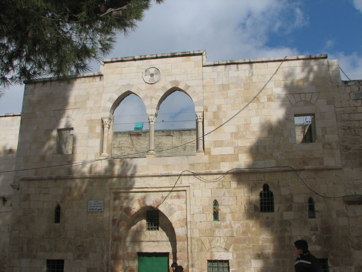 Al-Aqsa Mosque